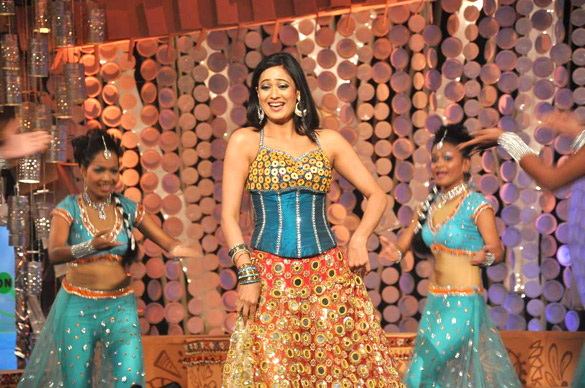 Shweta Tiwari From The NDTV Greenathon at Yash Raj Studios